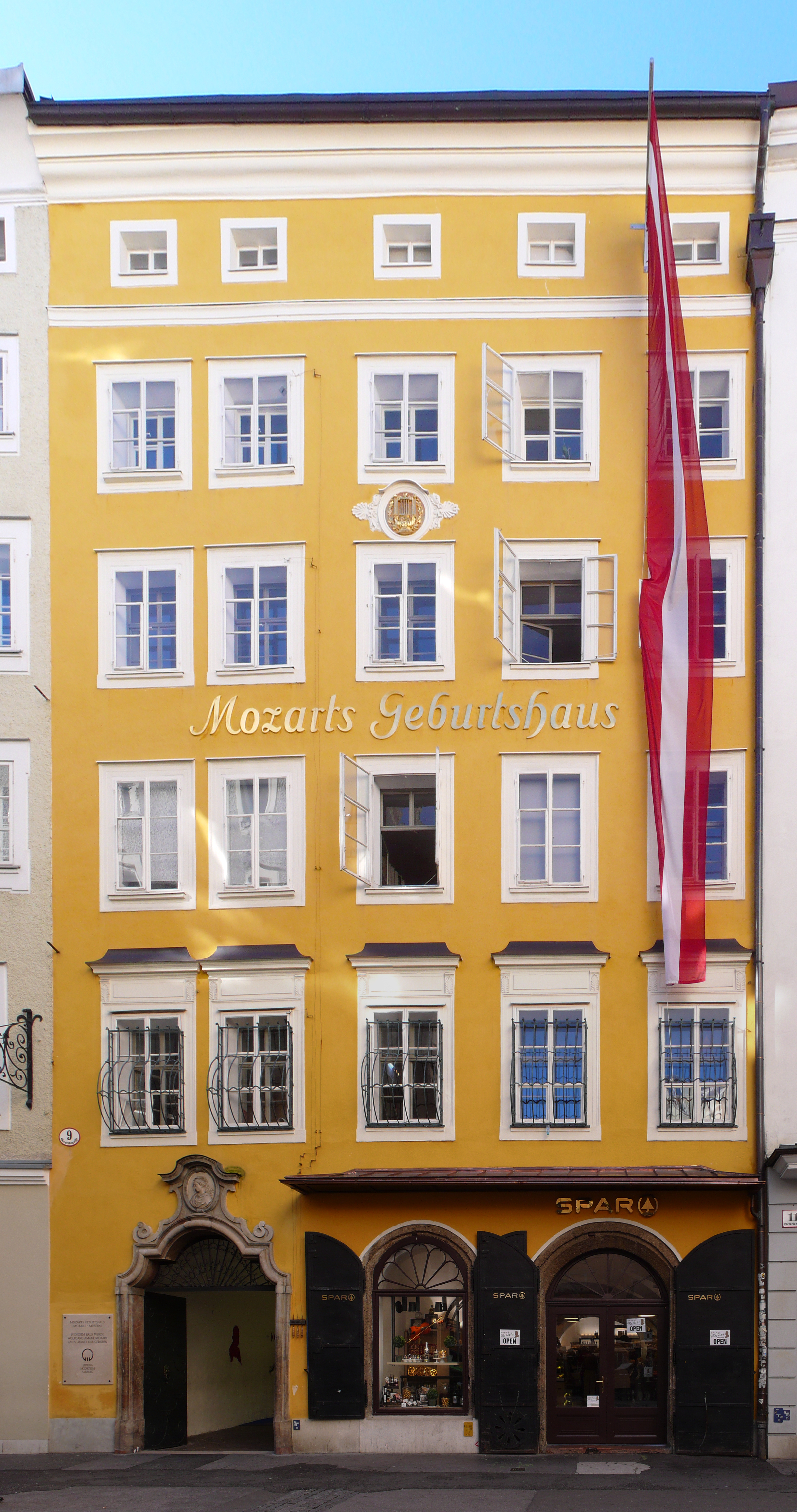 Mozart's birth place, Salzburg, Austria.